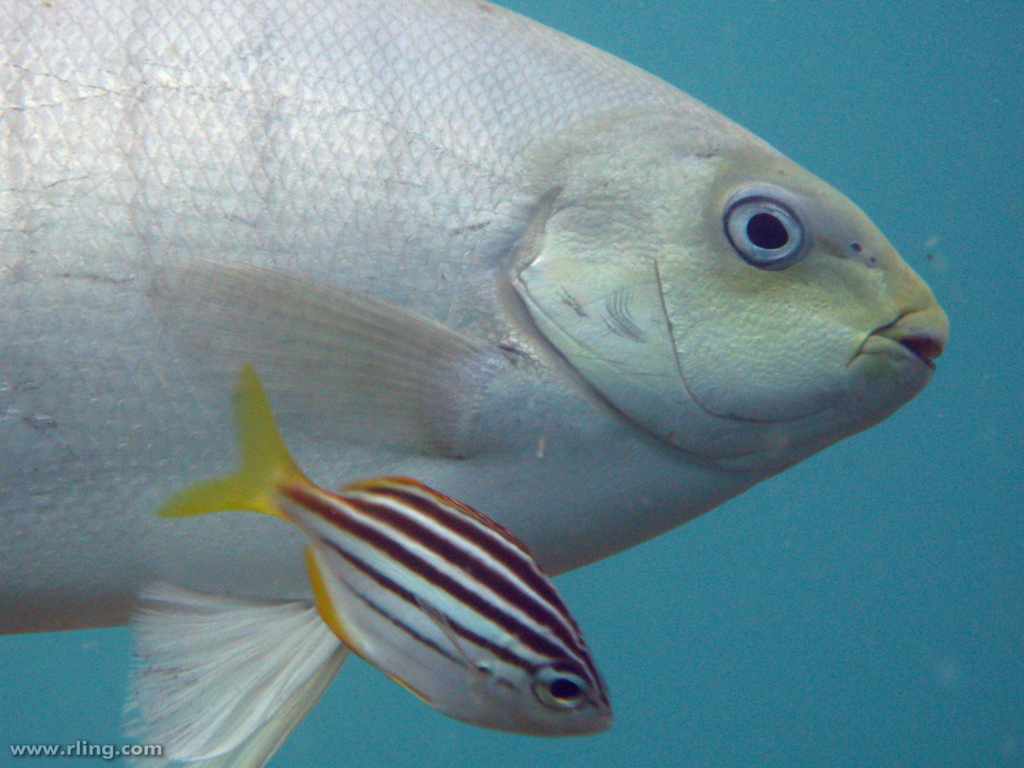 A Luderick (Girella tricuspidata) and Australian Mado (Atypichthys strigatus). Fairy Bower, Manly, NSW